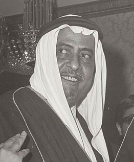 Ibrahim bin Abdullah Al Suwaiyel